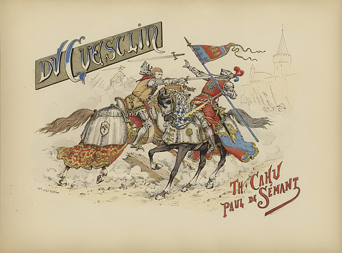 Bertrand du Guesclin French military commander